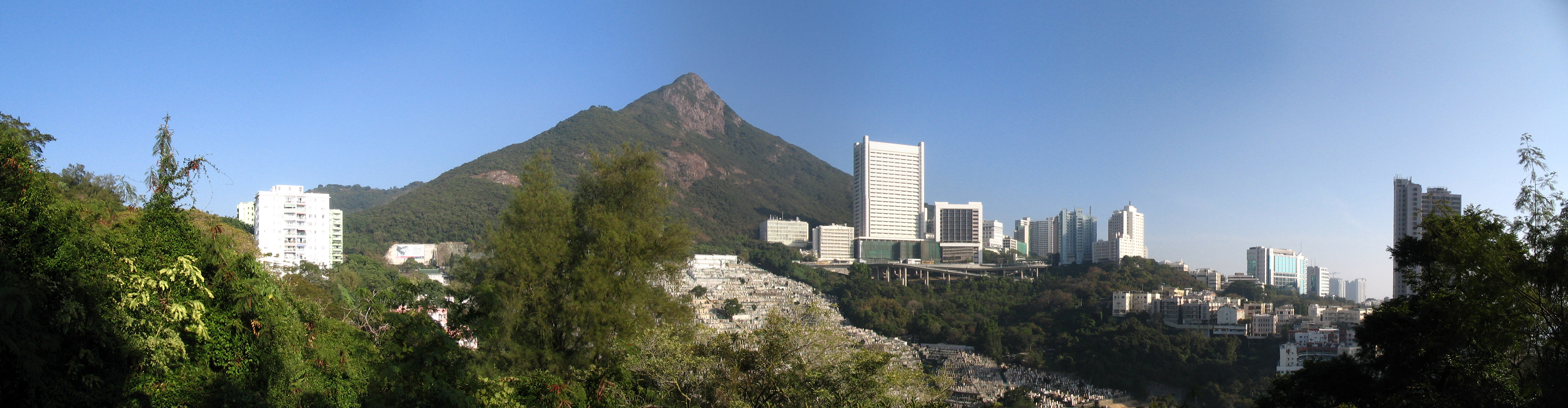 Panoramic photo of High West, combined from 2206430020, 2205643051, 2206432524, 2206433732, 2205646355 and 2205647295